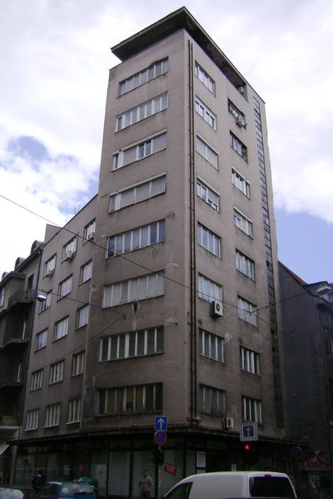 Stambeno-poslovna zgrada "Radovan", Masarykova 22, Zagreb (1933.-1934.)